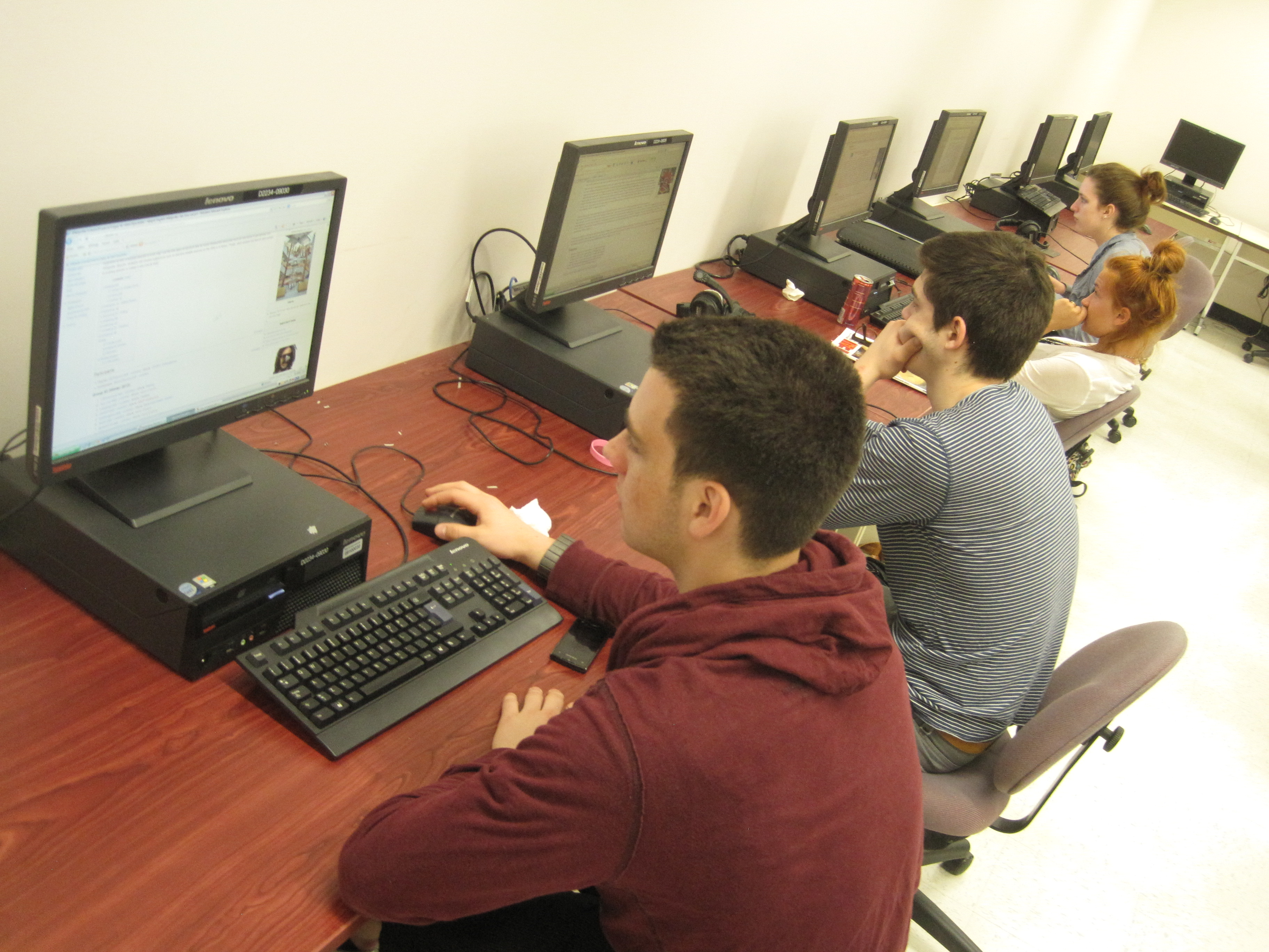 Students of the Cégep de St-Hyacinthe working in computer lab (see also Simple:Wikipedia:Schools/Projects/Cégep de Saint-Hyacinthe)